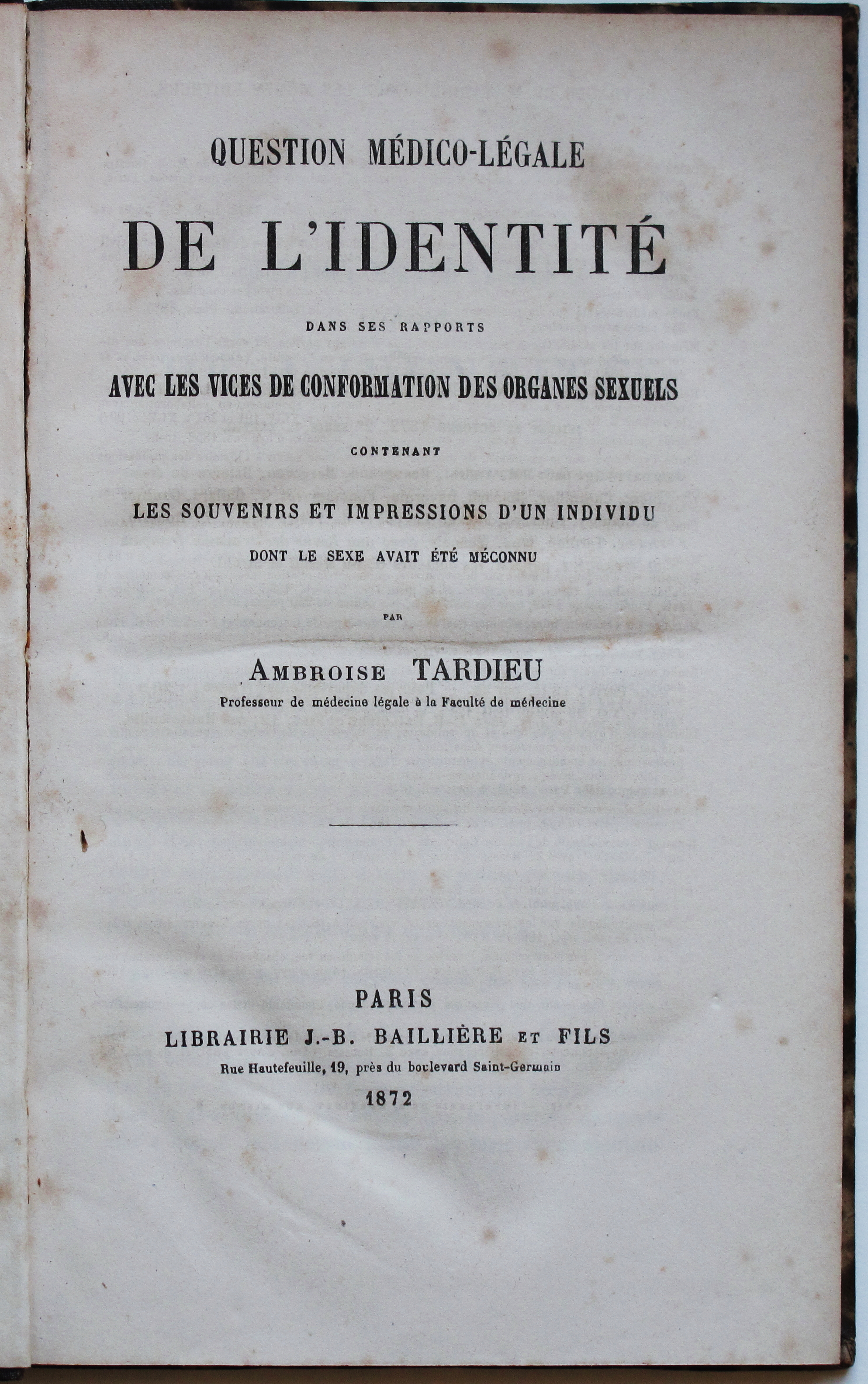 Title page of Ambroise Tardieu, Question médico-légale de l'identité dans ses rapport avec les vices de conformation des organes sexuels, contenant les souvenirs et impressions d'un individu dont le sexe avait été méconu (Paris: J.-B. Ballière et Fils, 1872) from the personal collection of Gerard Koskovich, San Francisco.